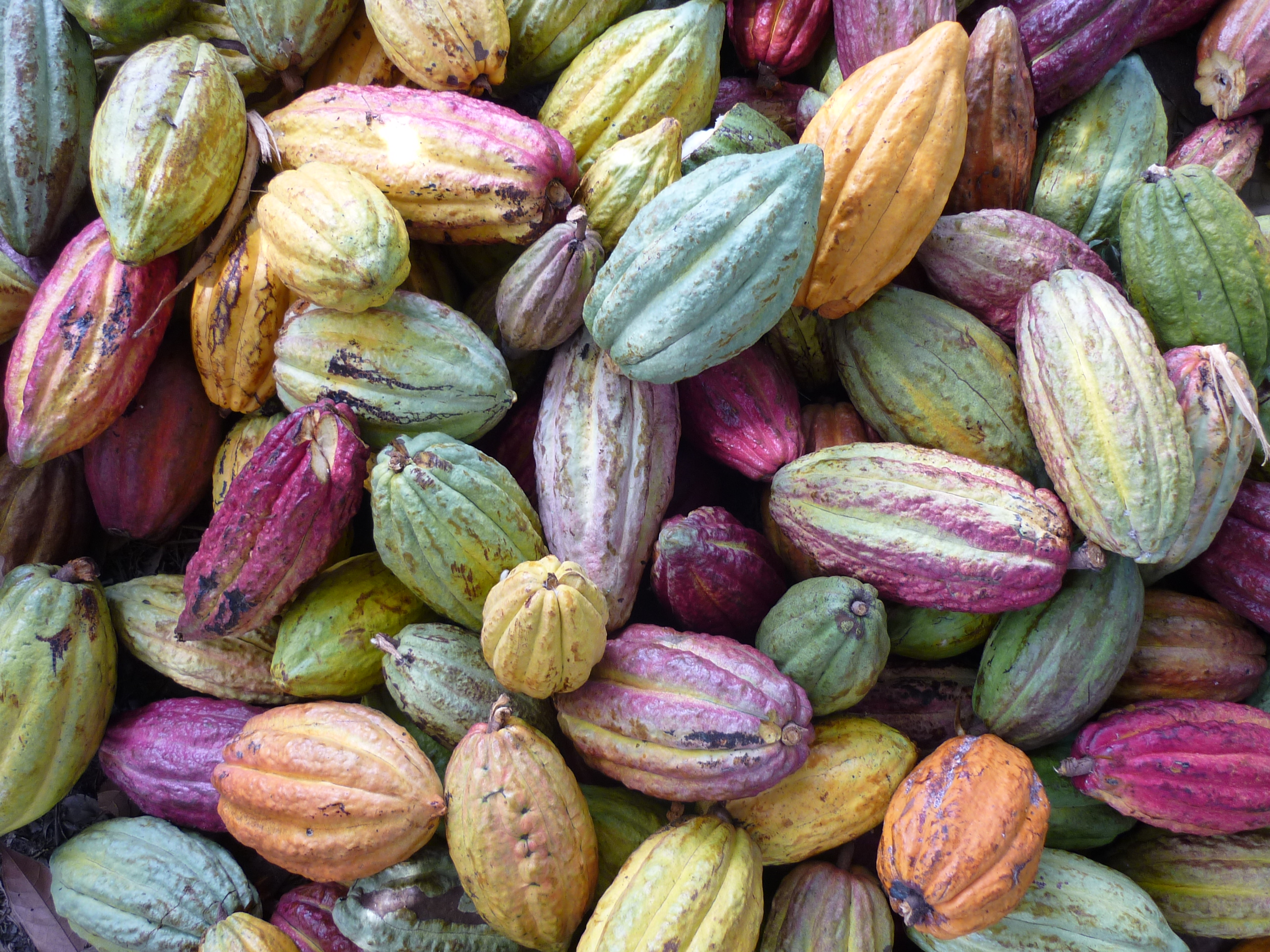 Assorted cacao fruits at Ambanja, Madagascar